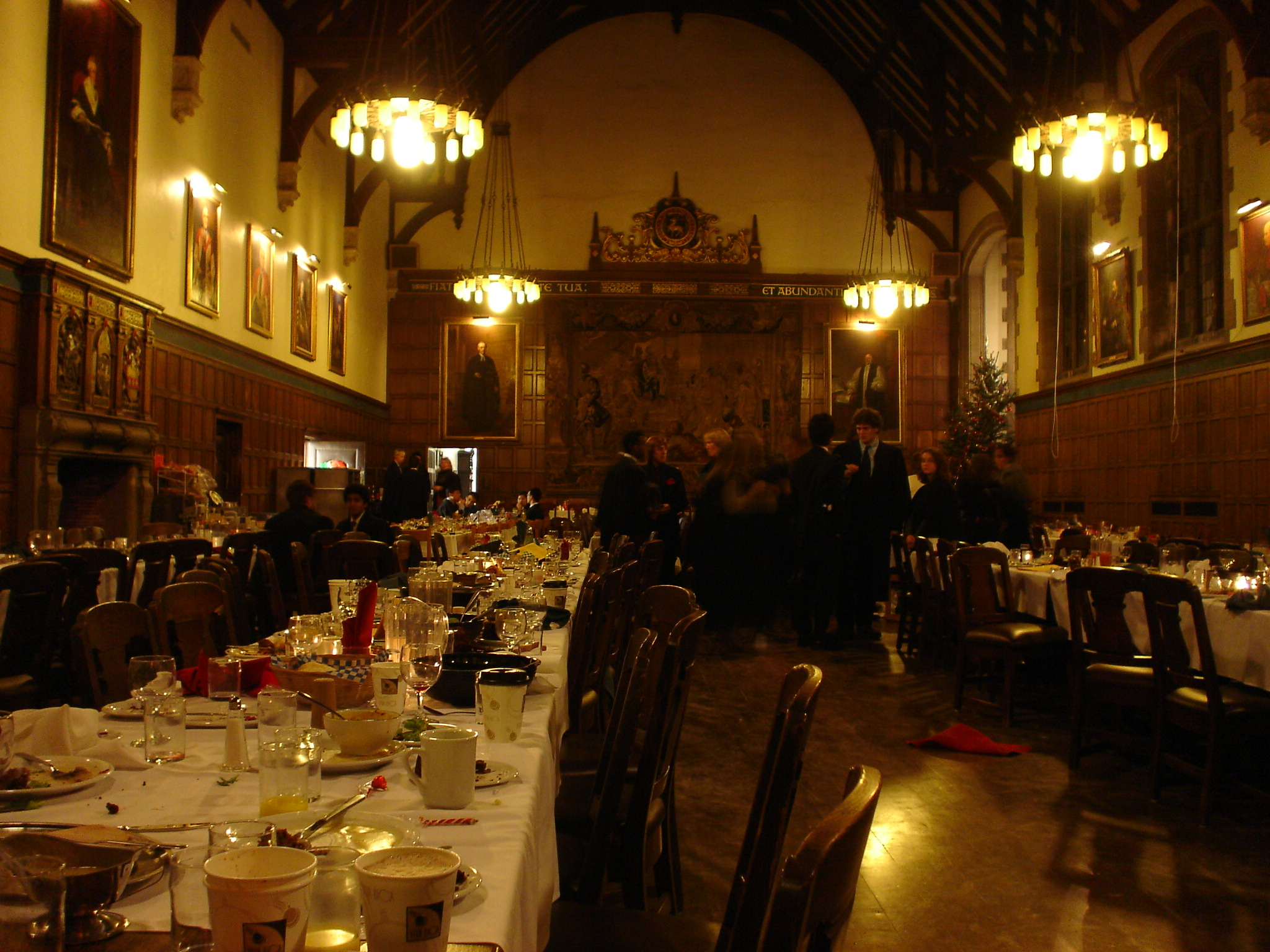 Students departing from the annual Christmas dinner in Strachan Hall.